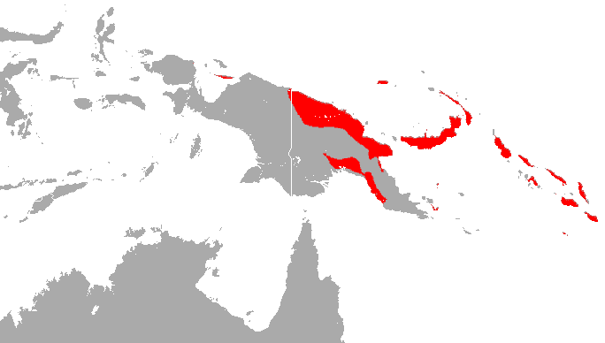 Spurred Roundleaf Bat (Hipposideros calcaratus) range